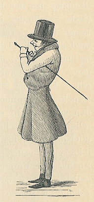 Søren Kierkegaard as he was caricatured in Meïr Aron Goldschmidts satirical journal "Corsaren".